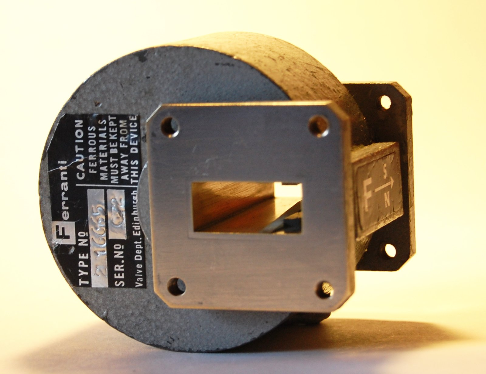 Isolator (resonance absorption isolator) in WG16 waveguide with UBR100-compatible flanges. A non-reciprocal device, passing microwave power in one direction only (note arrow on label on right). Consists of WG16 containing two strips of ferrite (black rectangle near right edge of each broad wall), which are biased by a horseshoe permanent magnet external to the guide. Ferrite absorbs TE10 wave entering from the far end (only). Not sure of the purpose of the ceramic strips (white, tapered) parallel with the ferrite strips. Got it at Anchor Surplus for £2.50.